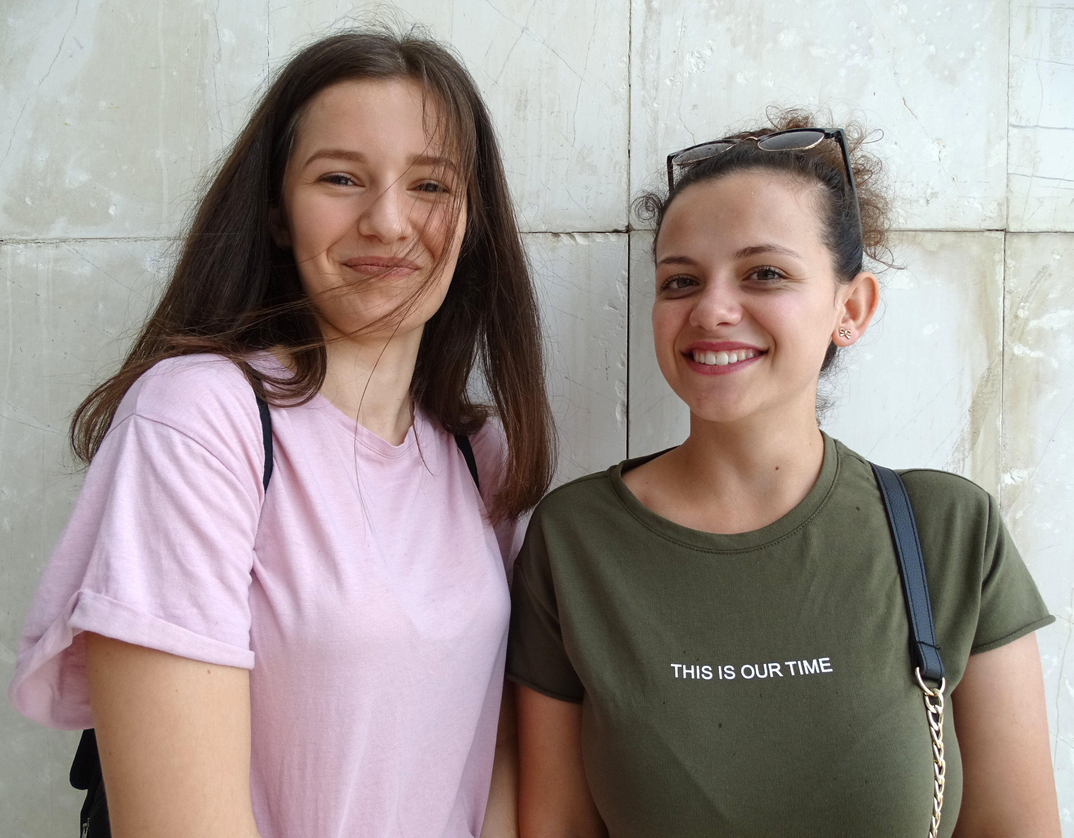 Photos by Adam Jones